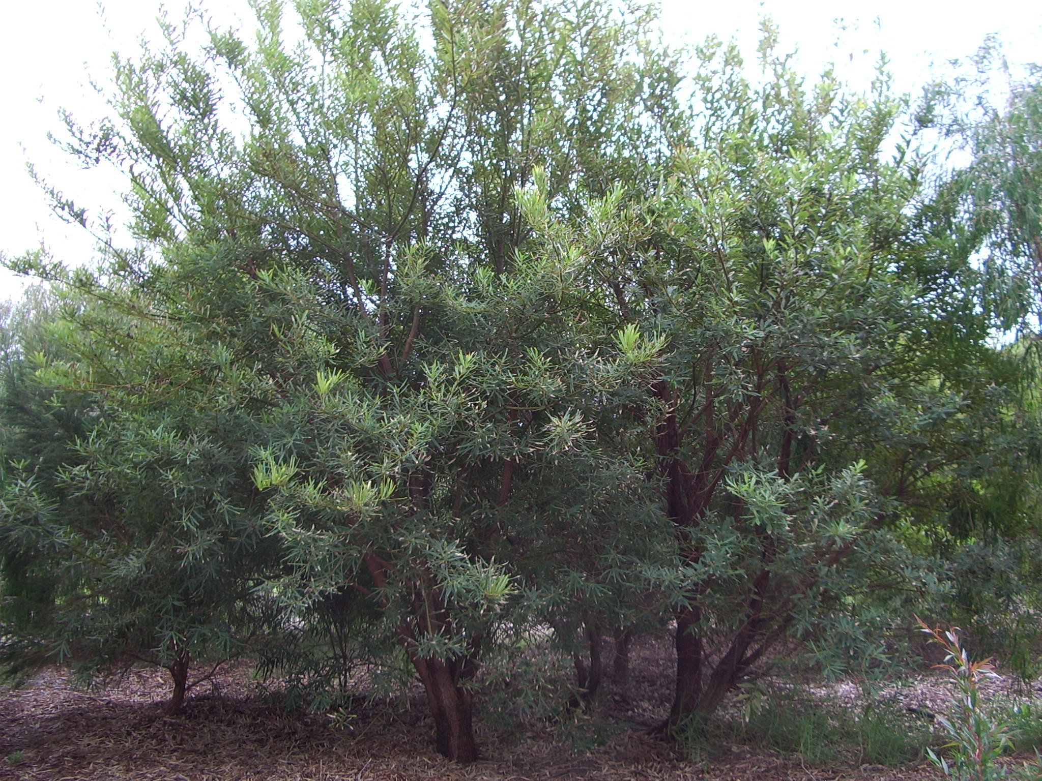 Speciman of Callistachys lanceolata, photo taken near lake seppings in Albany Western Australia